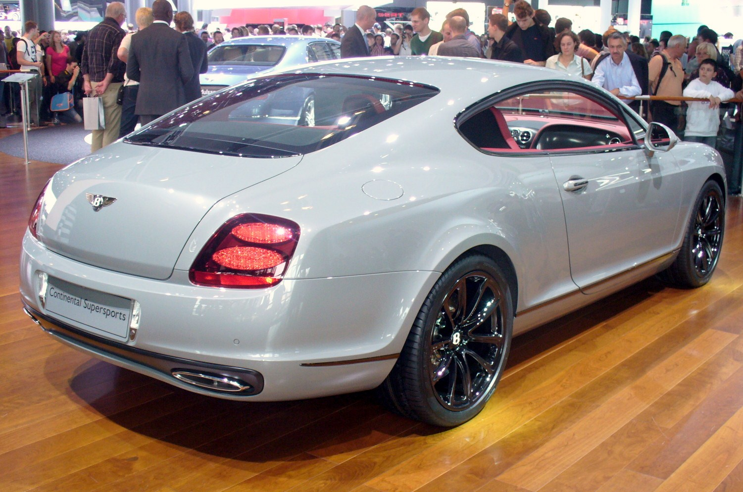 Bentley Continental Supersports